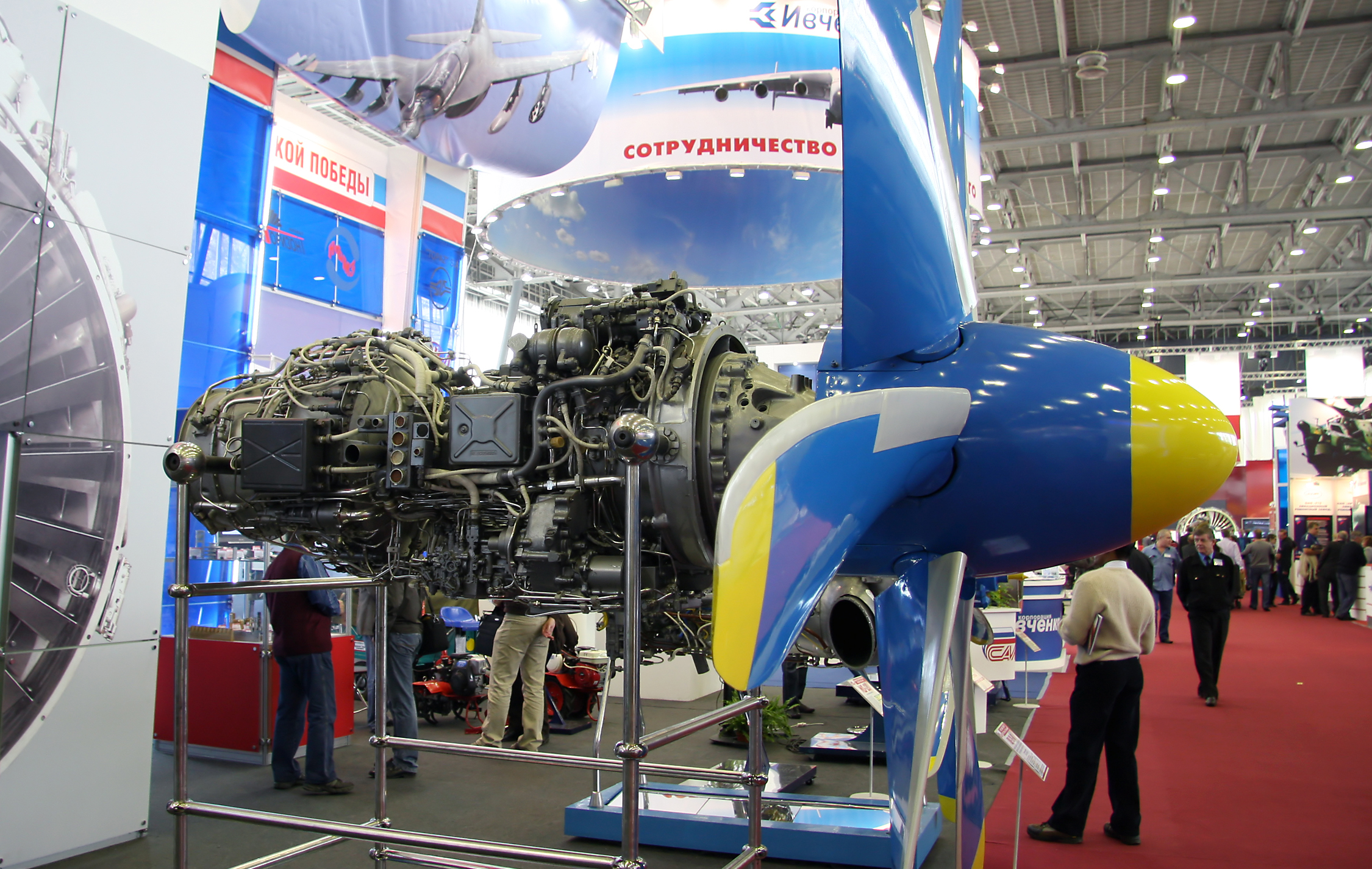 TV7-117S for IL-114 in International salon Engines-2010